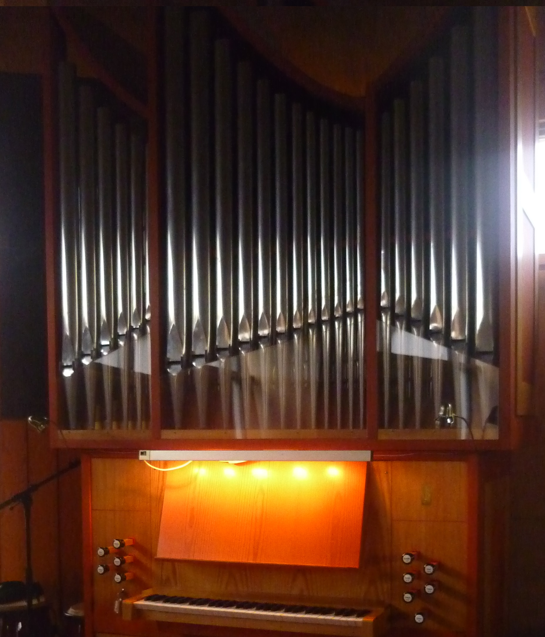 Organ in Nådens kapell Färjestaden, Öland, Sweden